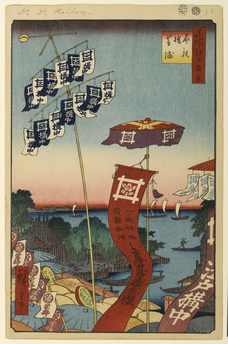 Part of the series One Hundred Famous Views of Edo, no. 080, part 3: Autumn.